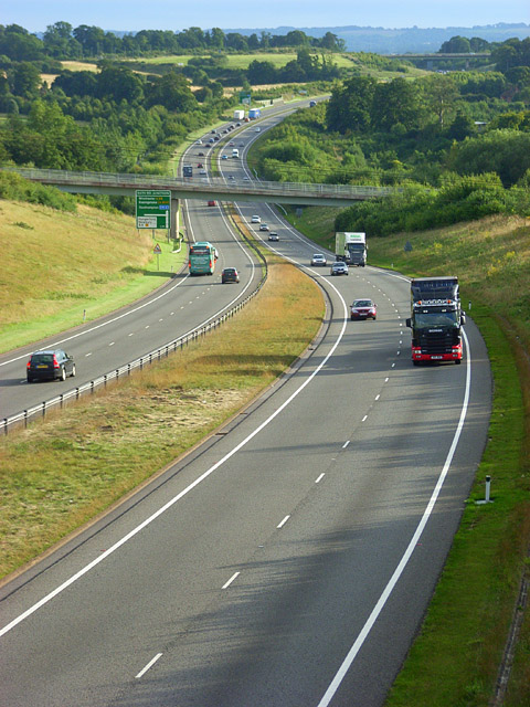 Showing the Newbury Bypass as it crosses the Lambourn valley. The nearer bridge carries a public footpath just east of Bagnor. The more distant one is at the A4 junction at Speen.